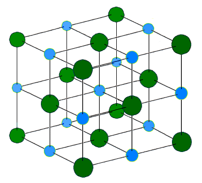 The Sodium Chloride Crystal Structure. Each atom has six nearest neighbors, with octahedral geometry. This arrangement is known as cubic close packed (ccp) or face-centered cubic (fcc). Light blue = Na+ Dark green = Cl